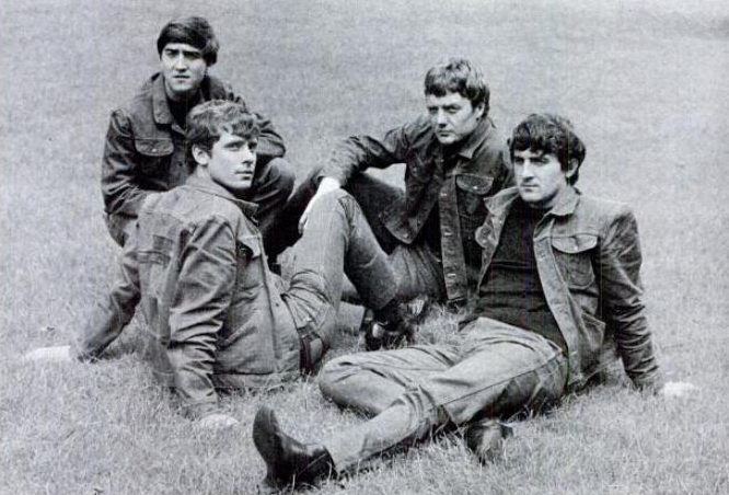 Trade ad for a US tour of The Swinging Blue Jeans and The Escorts. To better adapt it to his respective Wikipedia article, the ad was cropped and cleaned in a graphics editing program. The original can be viewed at the source below.